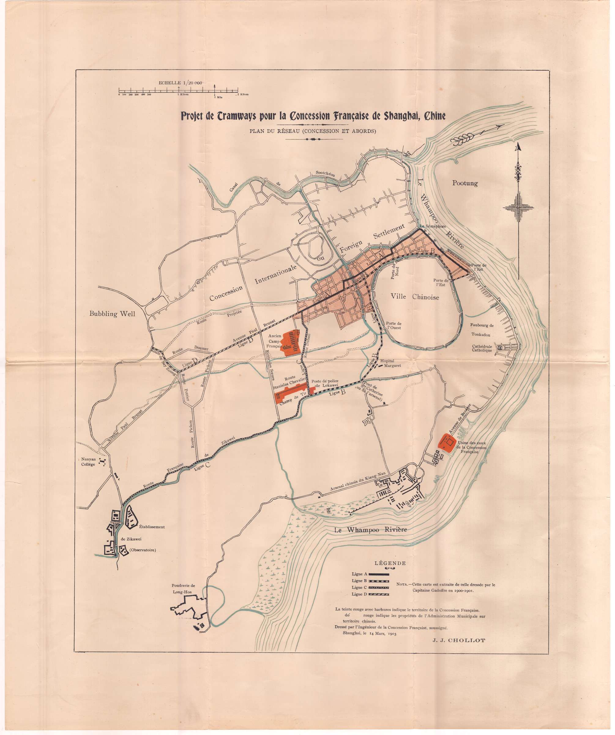 A map produced in 1903 showing the current and planned tramways in Shanghai's French Concession